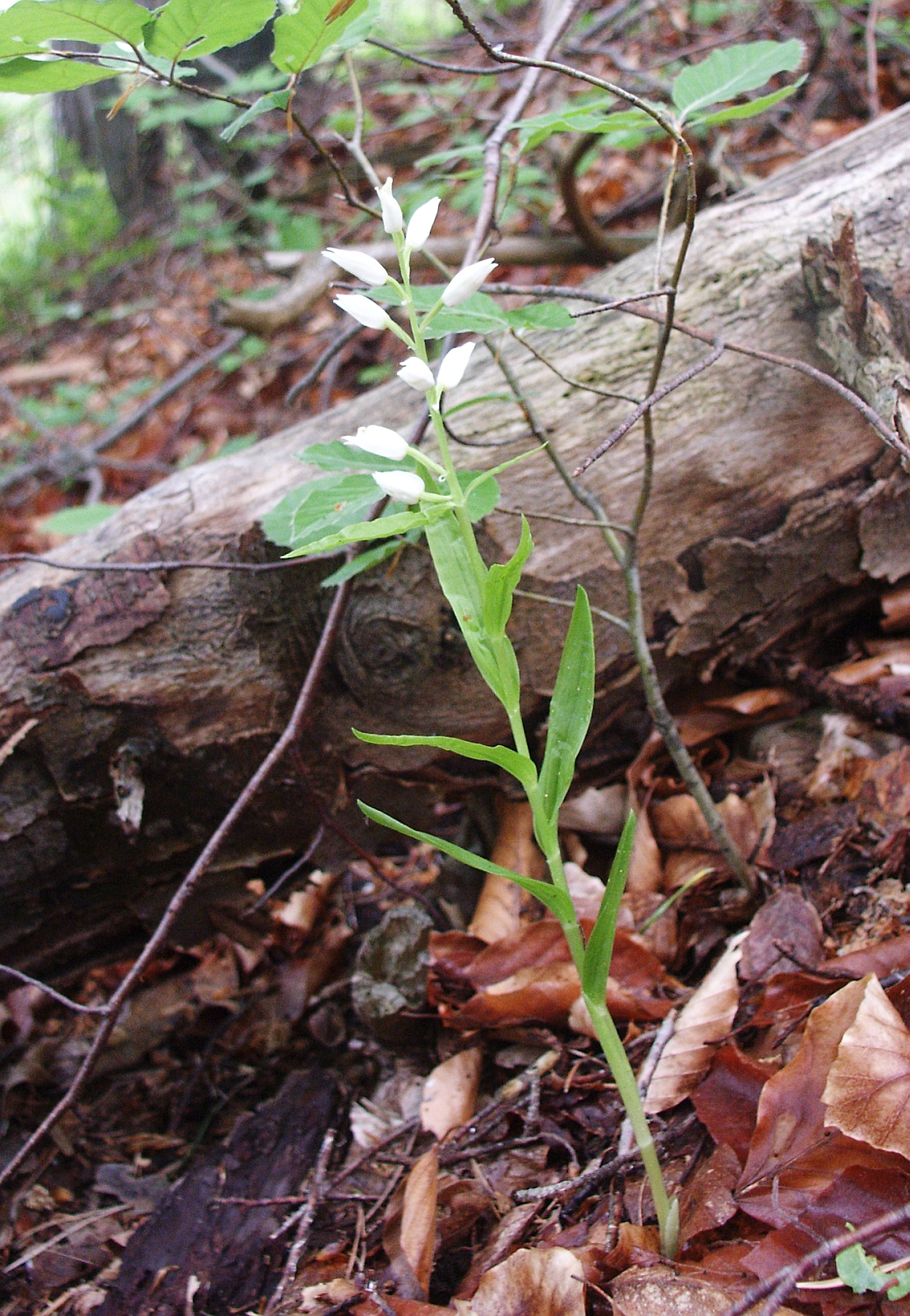 Cephalanthera × schulzei(Cephalanthera damasonium × longifolia)Hohenlohe, Germany